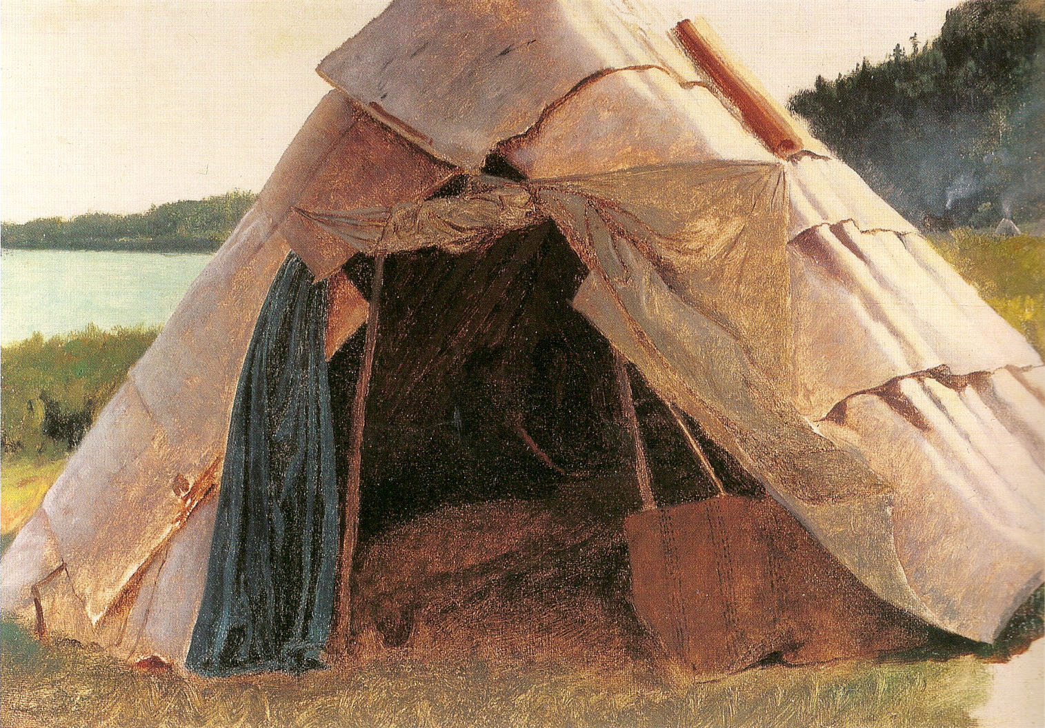 Eastman Johnson - Ojibwe Wigwam at Grand Portage - Oil on canvas 10.25 x 15.2 - 1857 - Scanned from